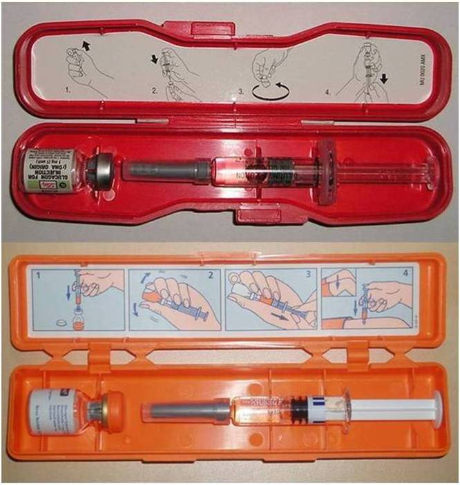 Image of glucagon emergency rescue kits